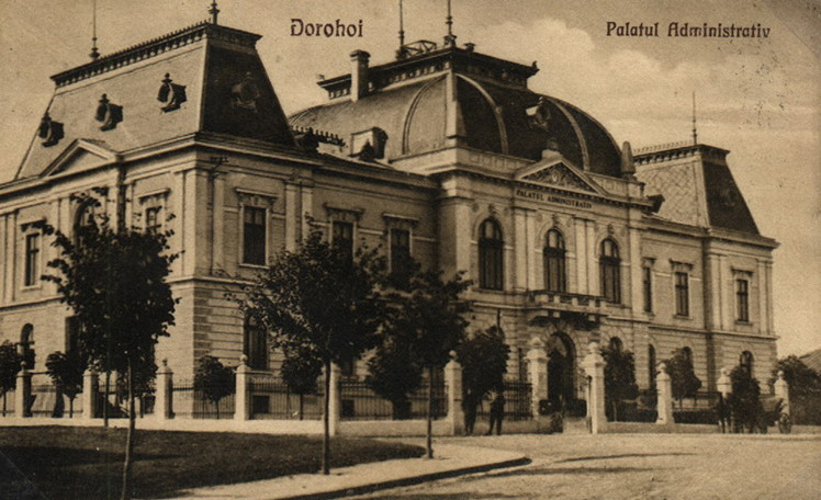 Administrative Palace in Dorohoi, illustrated in an early 20th century picture. The historical building was built in 1899 and today it houses the Natural Sciences Museum in Dorohoi.